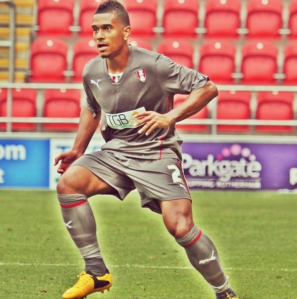 Richard Brindley (Rotherham United)